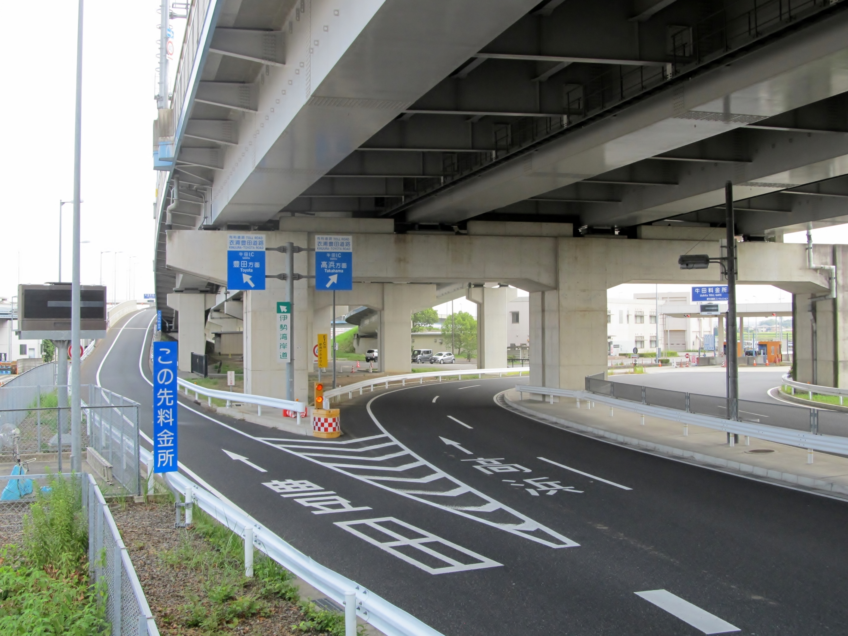 Kinuura-Toyota Road Ushita interchange, Aichi Japan